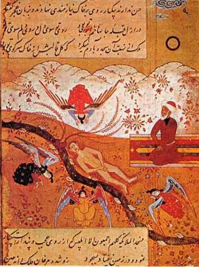 Depiction of Iblis with turban, refusing to prostrate.